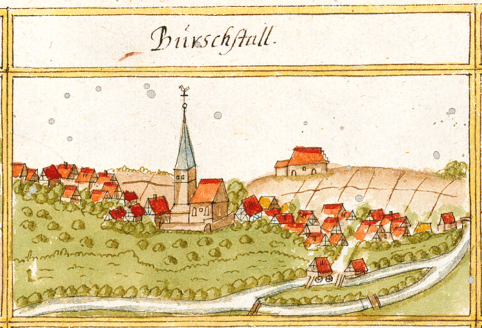 View of Burgstall an der Murr, Burgstetten, from the forest register books created by Andreas Kieser